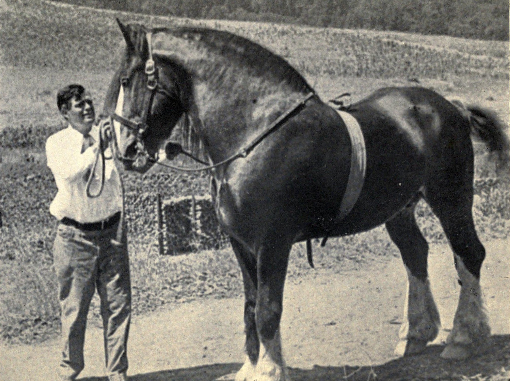 Jack London with his stallion "Neuadd Hillside" 1916